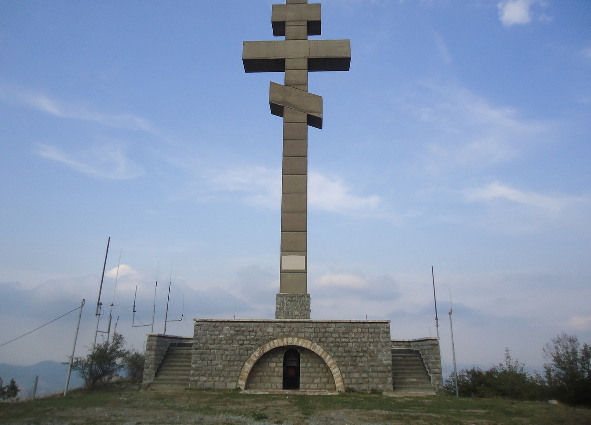 Monument for Hristo Botev on Mount Okoltchitza (or Okolchitsa)